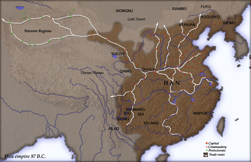 Map of Han Dynasty empire 87 BC, showing the capital Chang'an and the location of all commandery seats. In the Western Regions, a number of pretectorates were Han vassals and under the nominal authority of the Chief Protector of the Western Regions appointed by the Han court. Category:Maps of the history of China